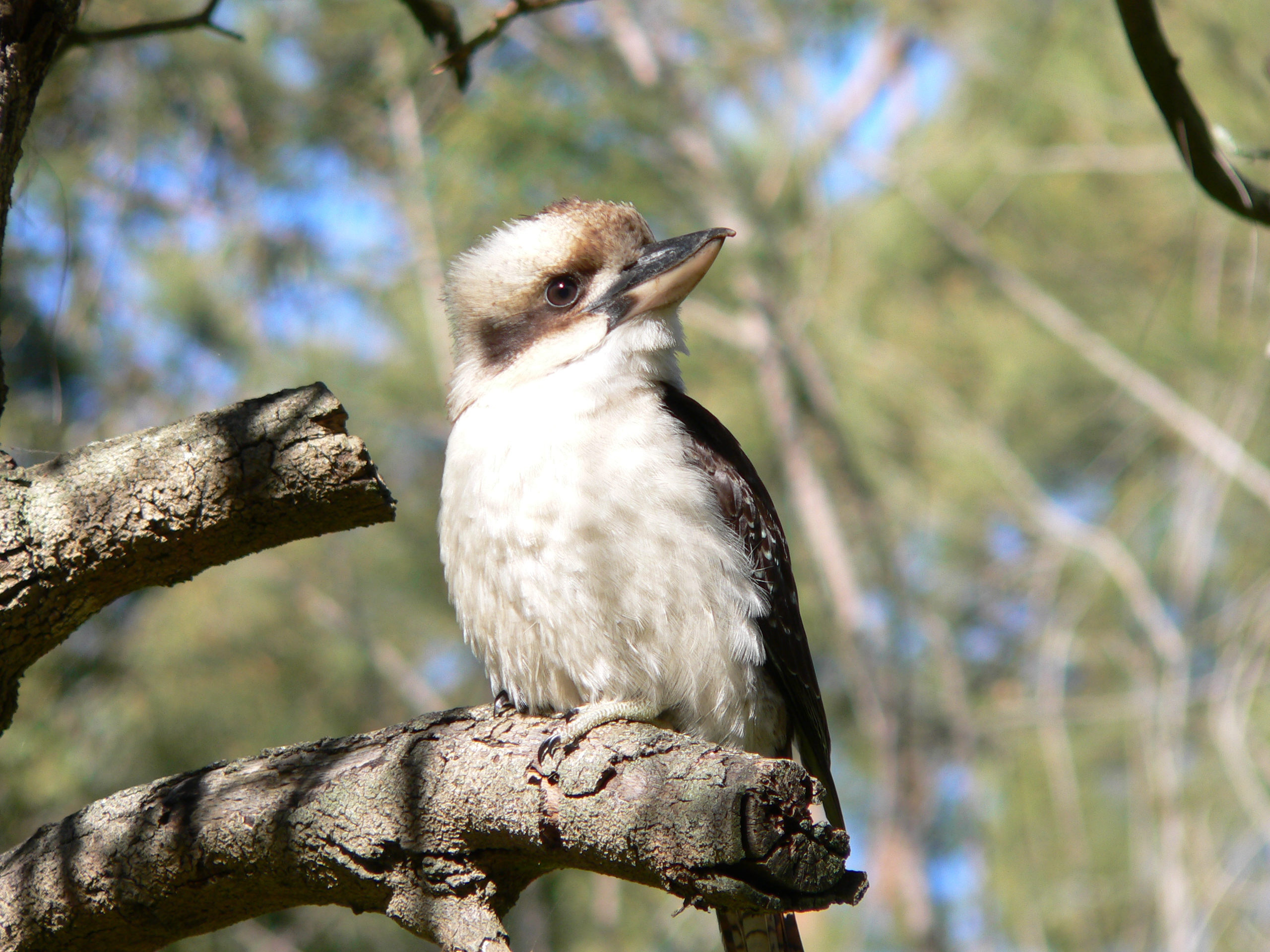 A Laughing Kookaburra in the Blackbutt Reserve, Newcastle, Australia (NSW)